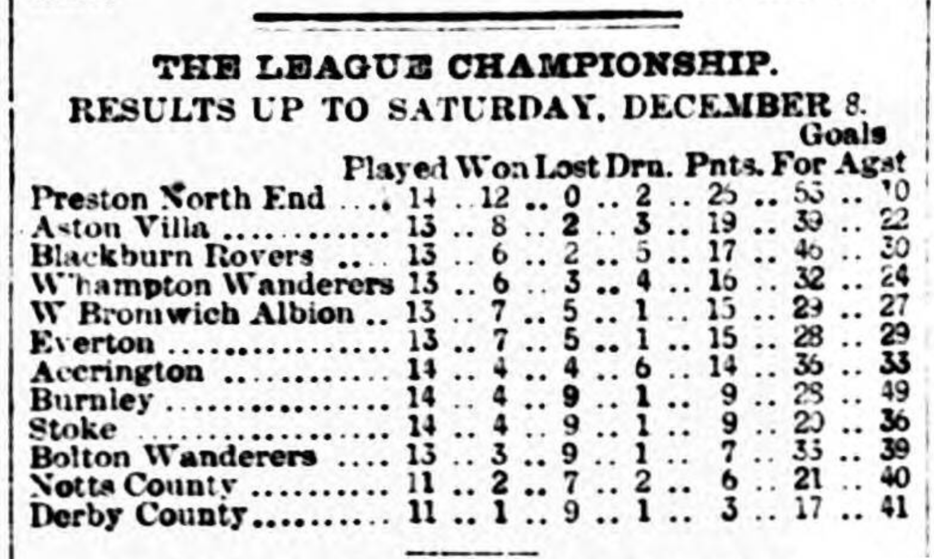 Early example of a league table for the Football League, illustrating 2 points for a win and 1 point for a draw